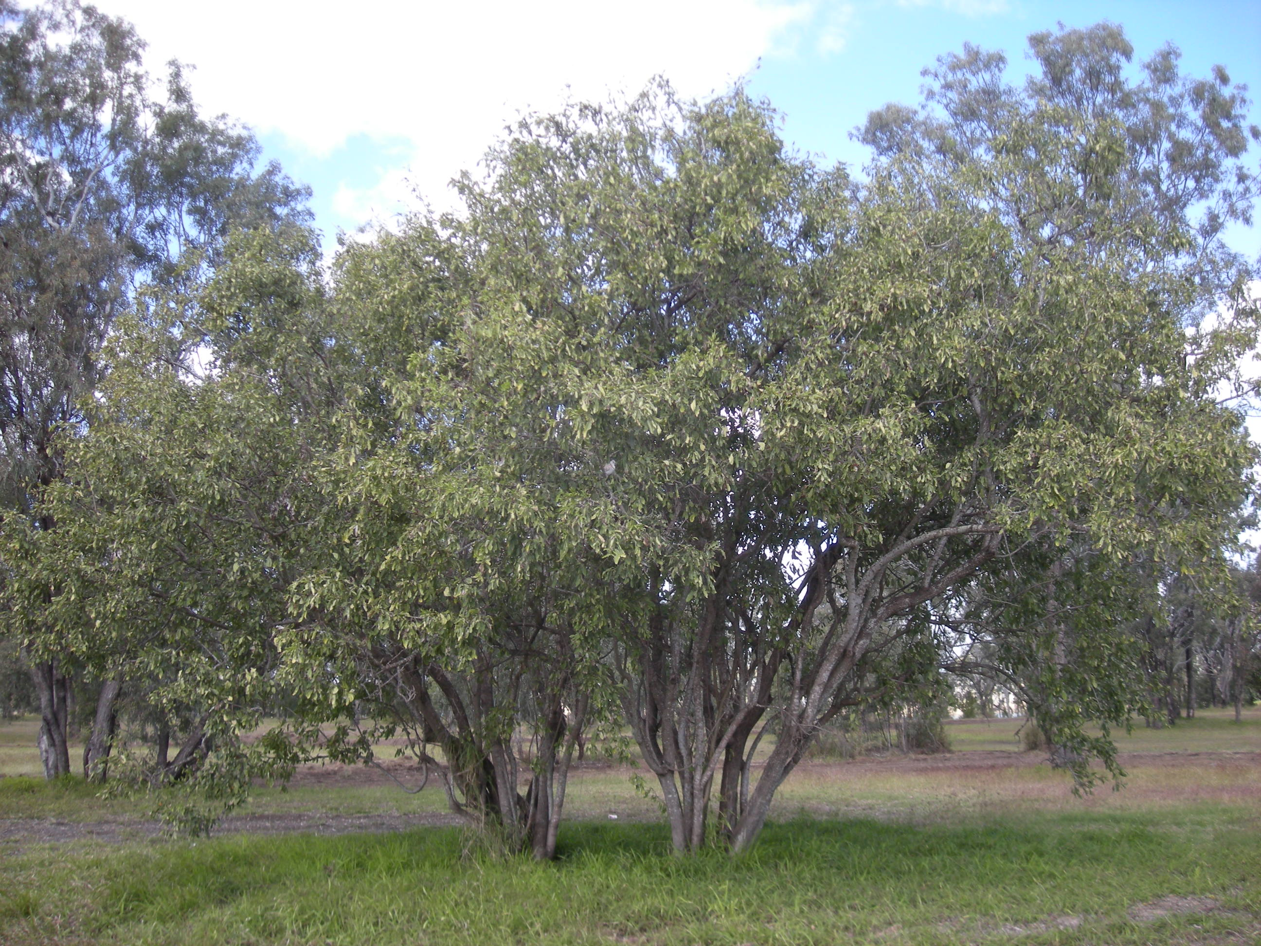 Cordia sinensis trees, Fitzroy river floodplain, Rockhampton, Central Queensland.